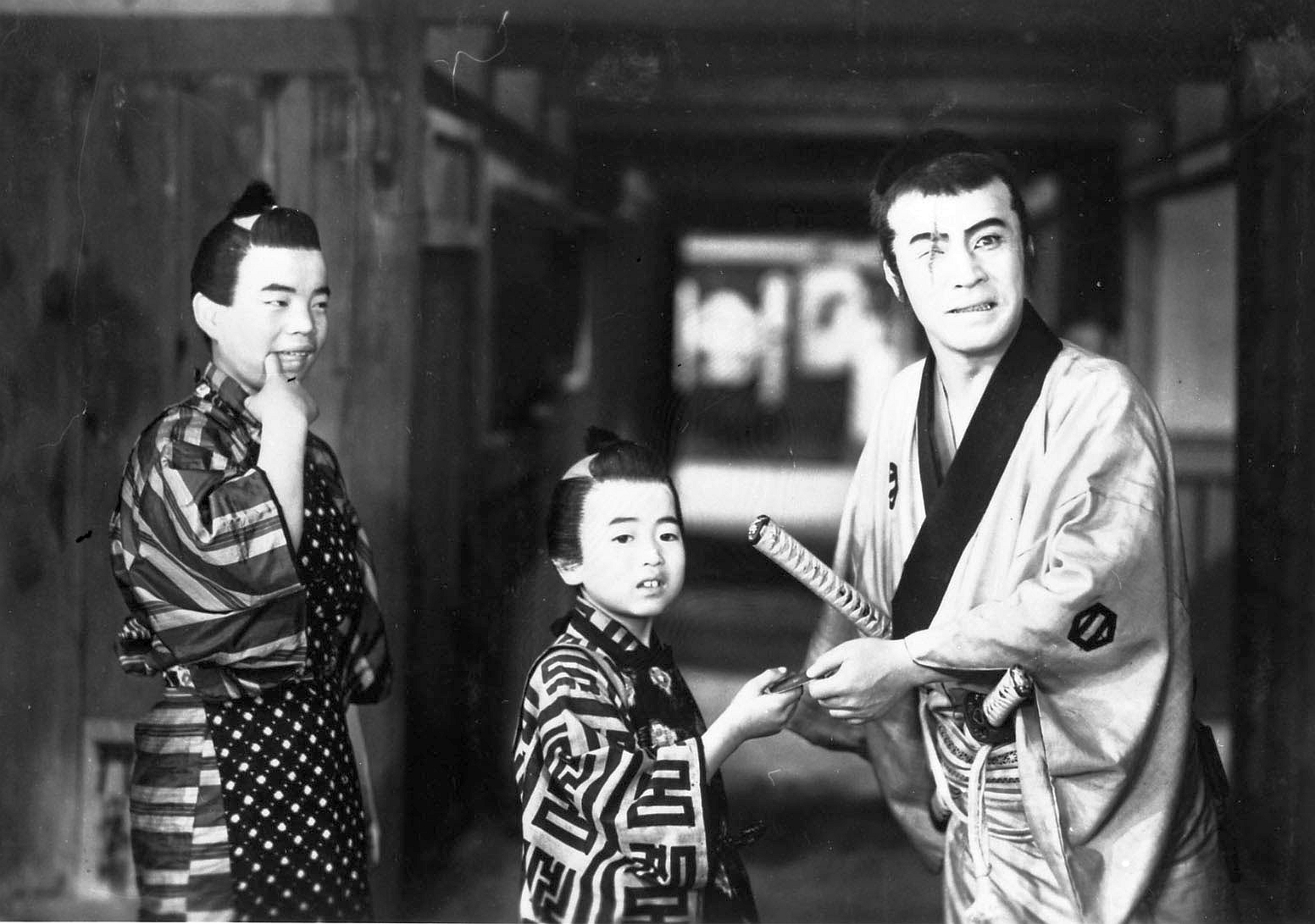 Sō Shuntarō (宗春太郎 - center) and Denjirō Ōkōchi (right) in Tange Sazen yowa : Hyakuman-ryō no tsubo (丹下左膳余話 百萬両の壺) directed by Sadao Yamanaka - 1935